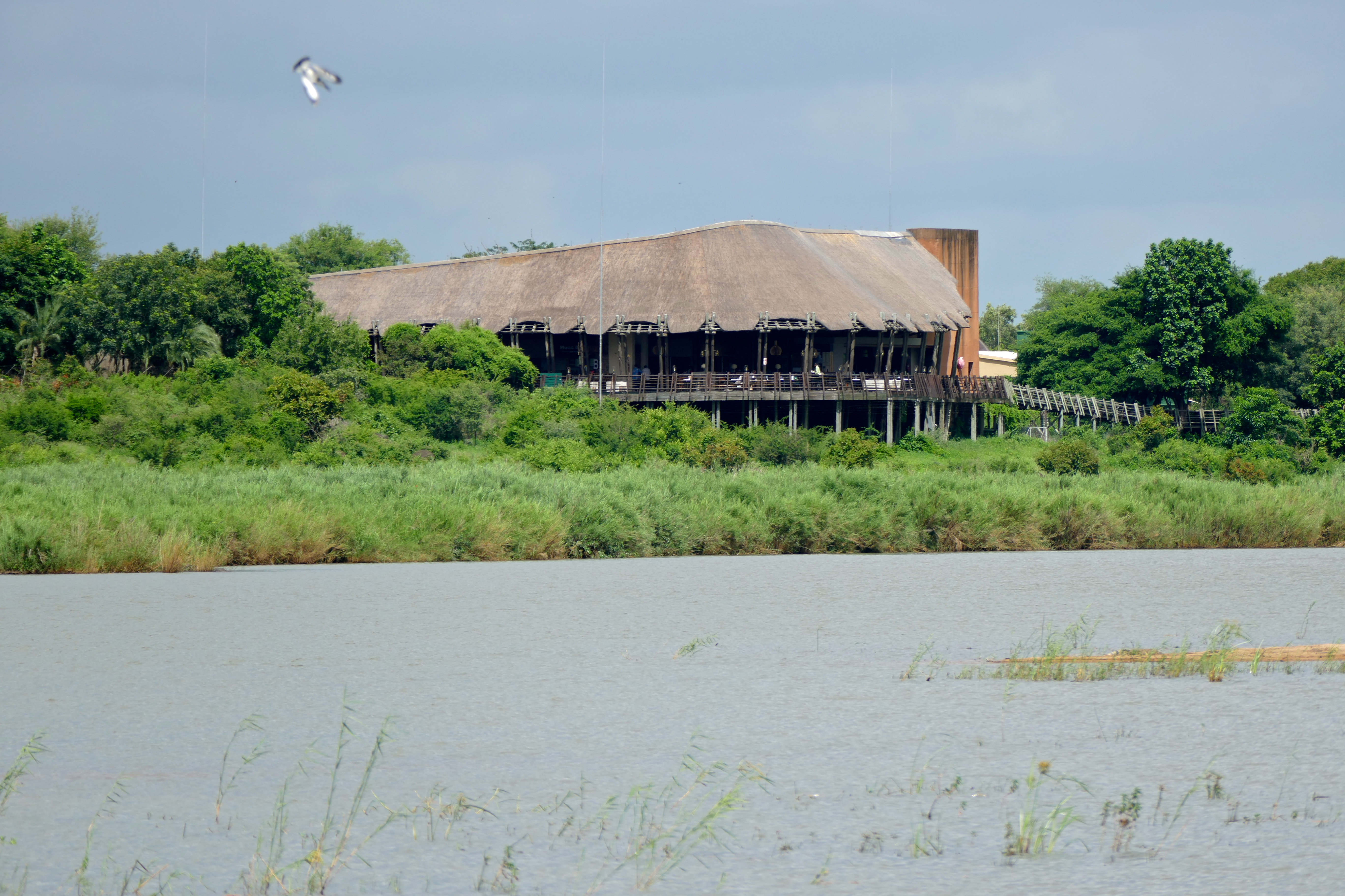 H10 Road East of Lower Sabie, Kruger NP, SOUTH AFRICA